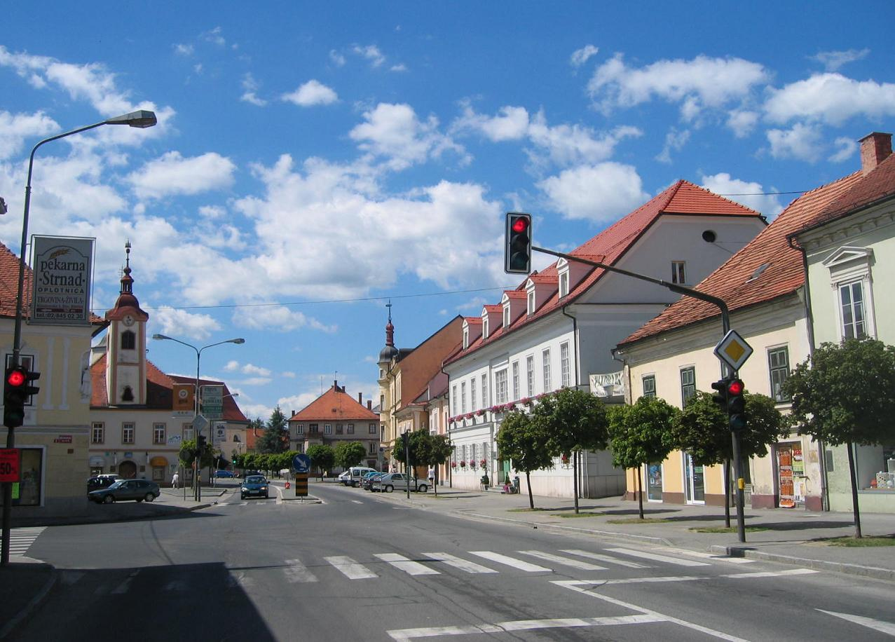 Slovenska Bistrica, town center photo:Ziga 21:31, 12 August 2006 (UTC)